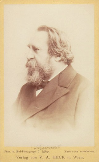 Theodor Meynert